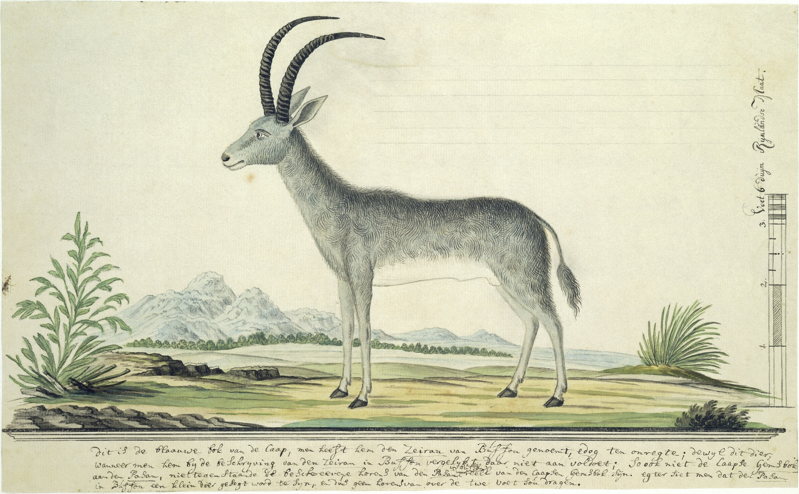 Part of the Gordon Atlas.